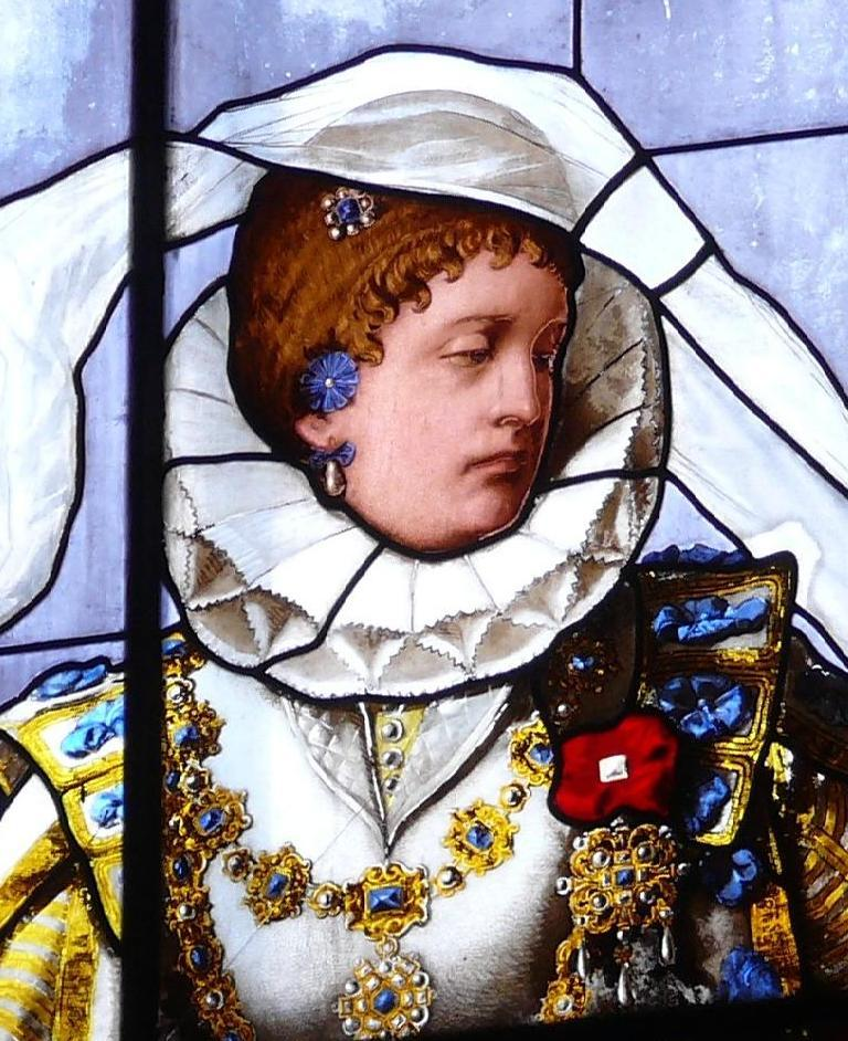 Queen Catherine of Sweden (1568) as depicted in a window above her grave in Turku Cathedral in Finland